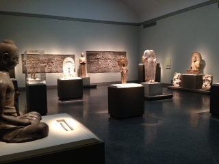 Promise of Paradise: Early Chinese Buddhist Sculpture is an exhibition at Freer Sackler the Smithsonian museum of Asian art.